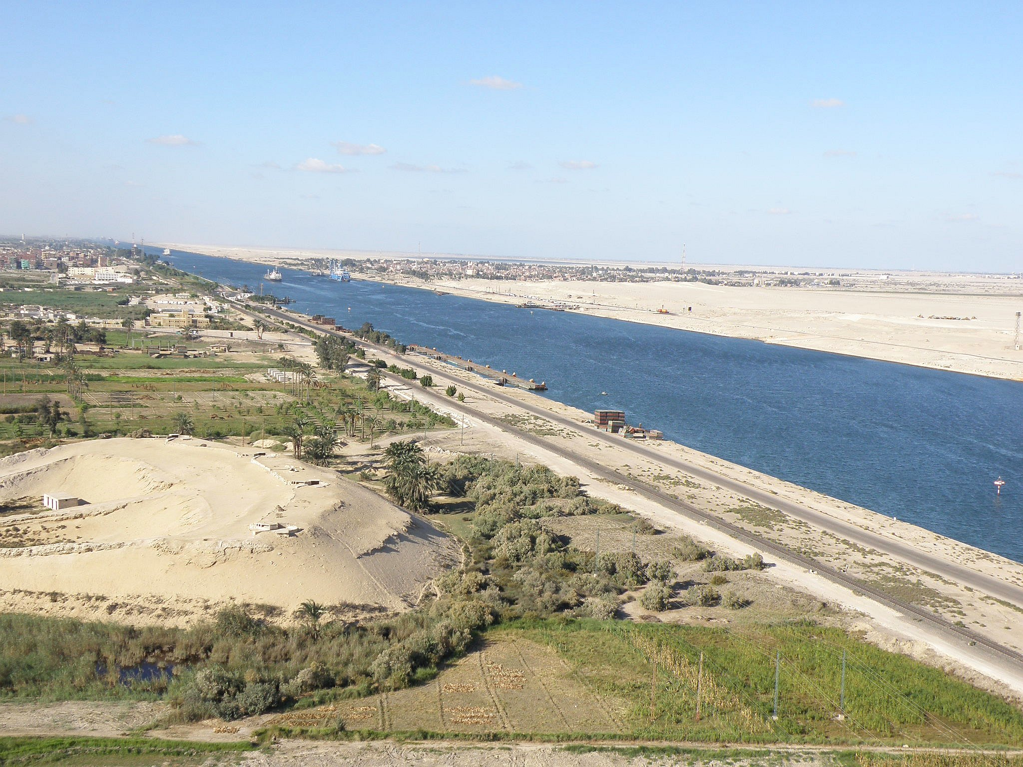 Suez canal top view.